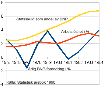 Economy indicators for Sweden 1975-1984. Blue graph: GDP growth (%). Red graph: Unemployment (% of labour force) Yellow graph: The State debt as a share of GDP (in tenths of GDP) Source: Statistisk årsbok (SCB).